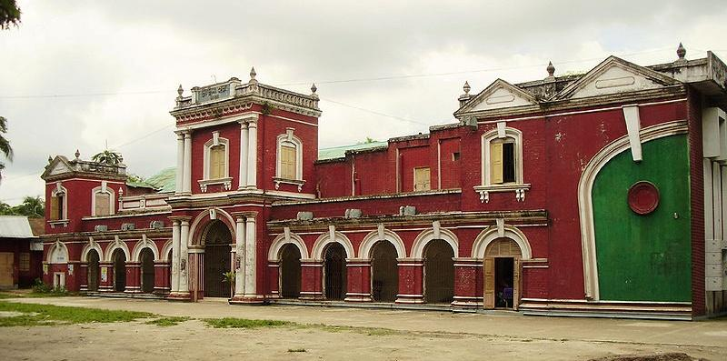 Rangpur_townhall